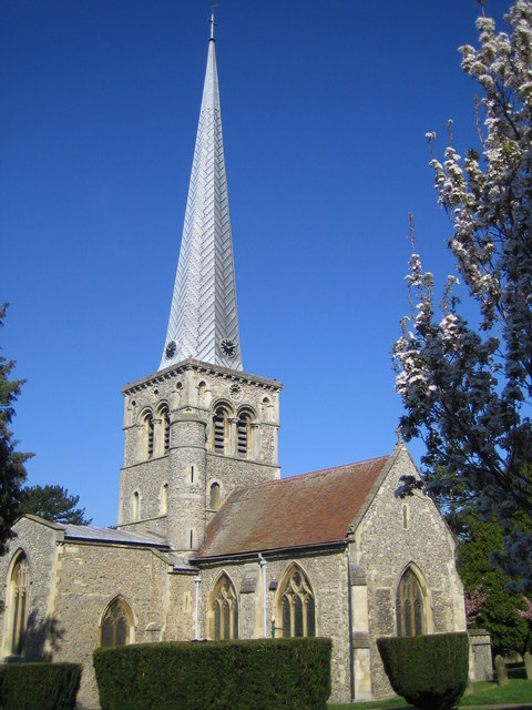 Hemel Hempstead: St Mary's Church, Hertfordshire, Great Britain. Construction of the original Norman Church began in about 1140 and was completed around 1180. The spire, which is about 200 feet high, was added around 1340. The clock at the base of the spire was donated by the Earl of Marchmont in 1784. This is probably the finest complete Norman church in Hertfordshire, and is surprisingly large for the small community it once served, prior to Hemel's development as a post-war New Town.